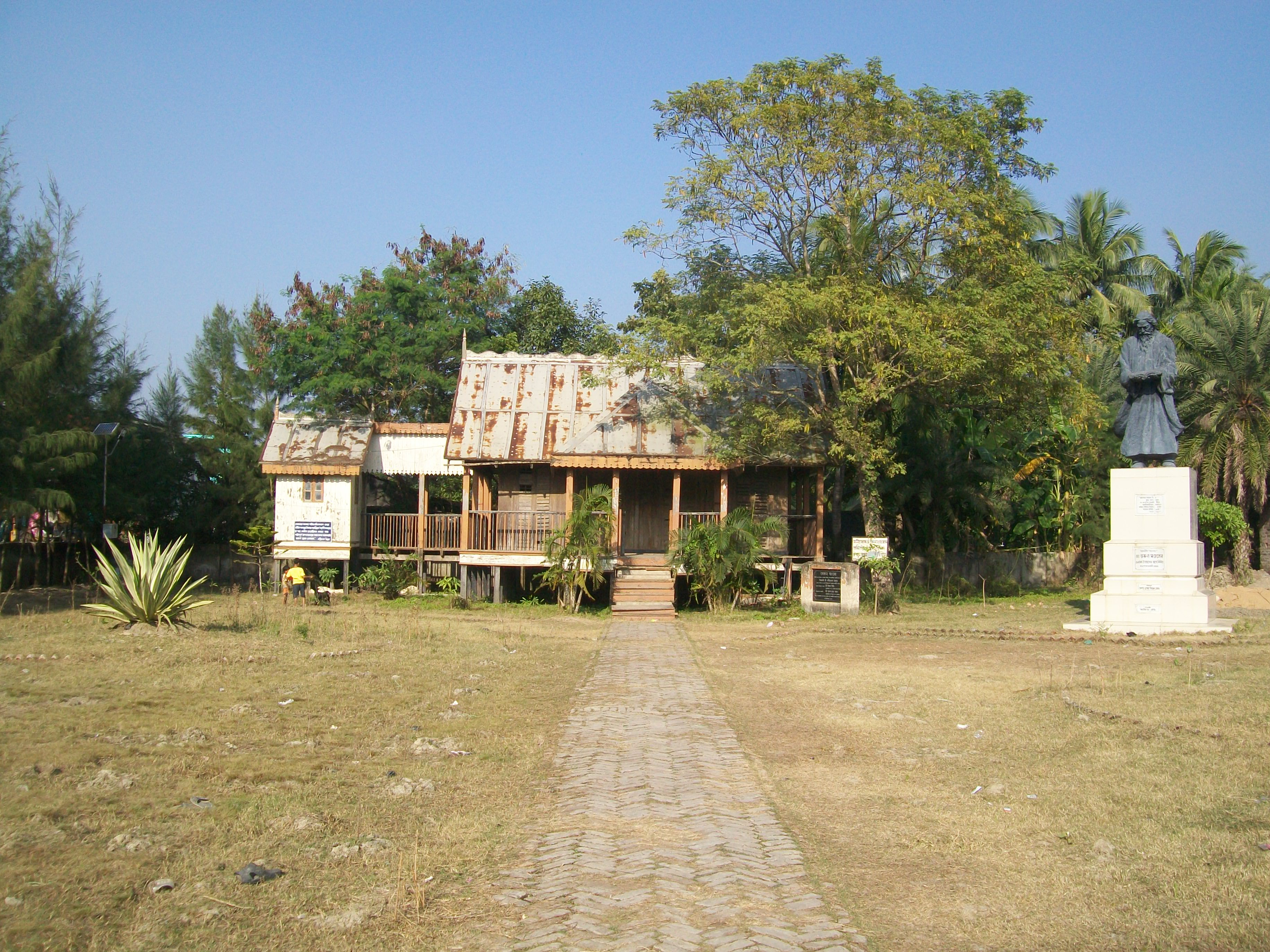 Bungalow of sir Daniel Hamilton at Gosaba, South 24 Parganas